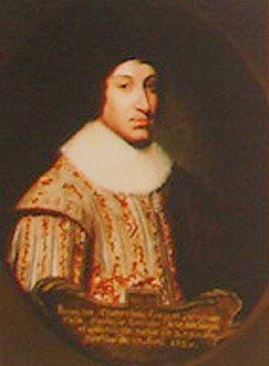 Enno II. Cirksena, unsigned portrait. See this article on the image's restoration for further information (in German).